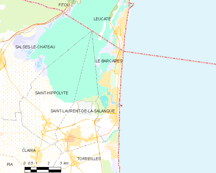 Map of French municipality